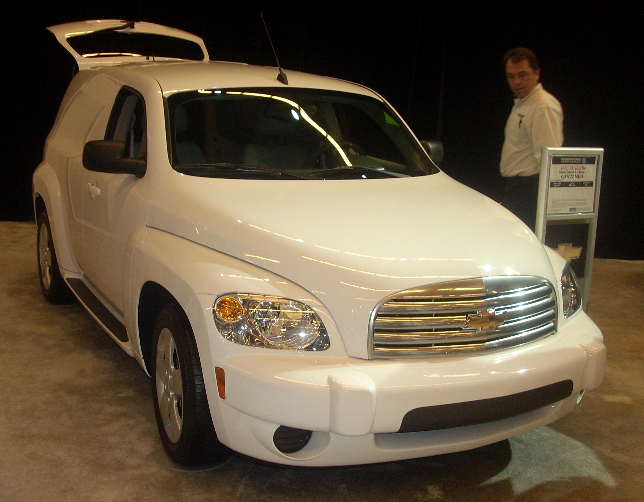 2008 Chevrolet HHR photographed at the Montreal Auto Show.